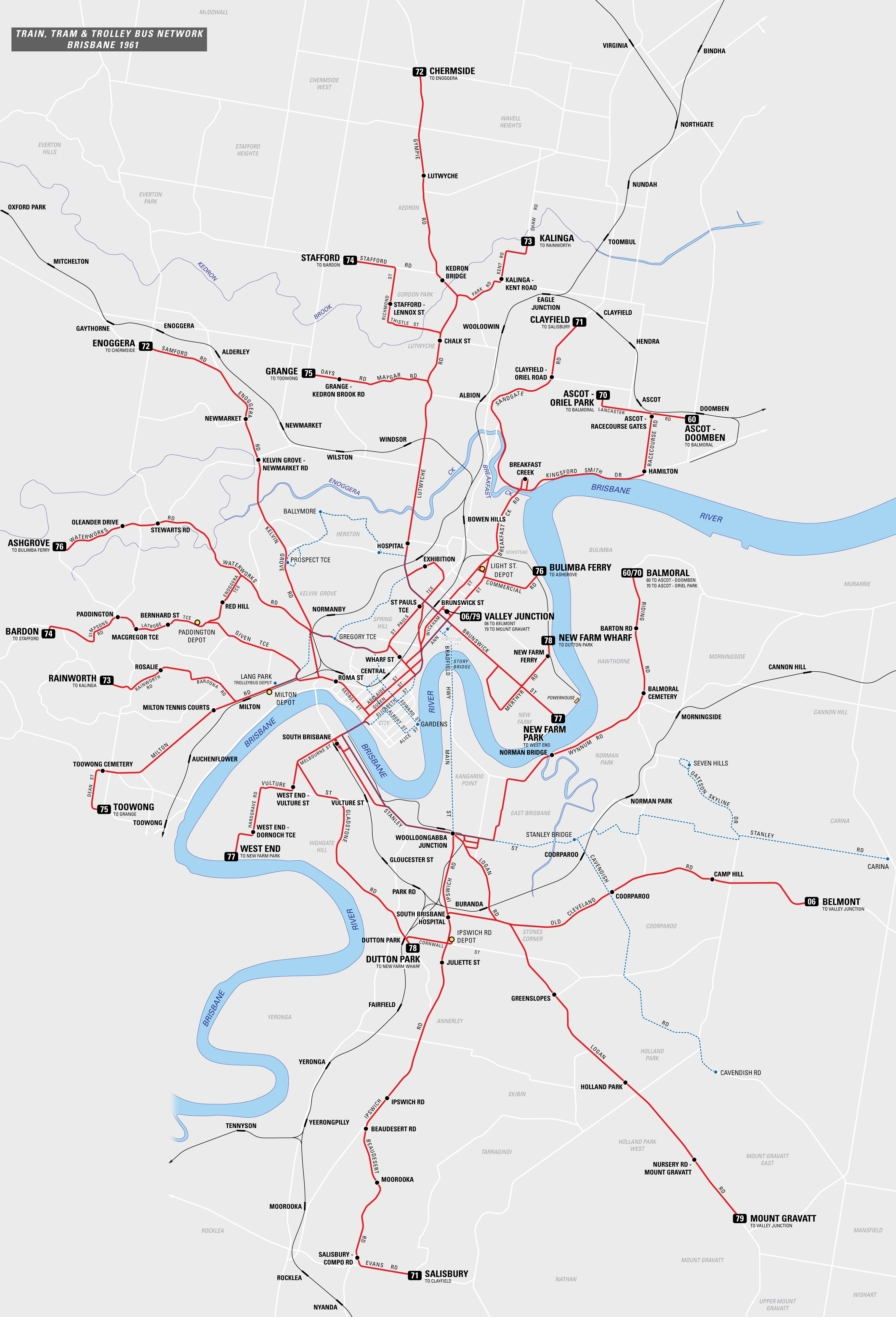 Brisbane's tram and trolleybus southside network in 1961. KEY Tram routes Trolleybus routes Rail Main roads